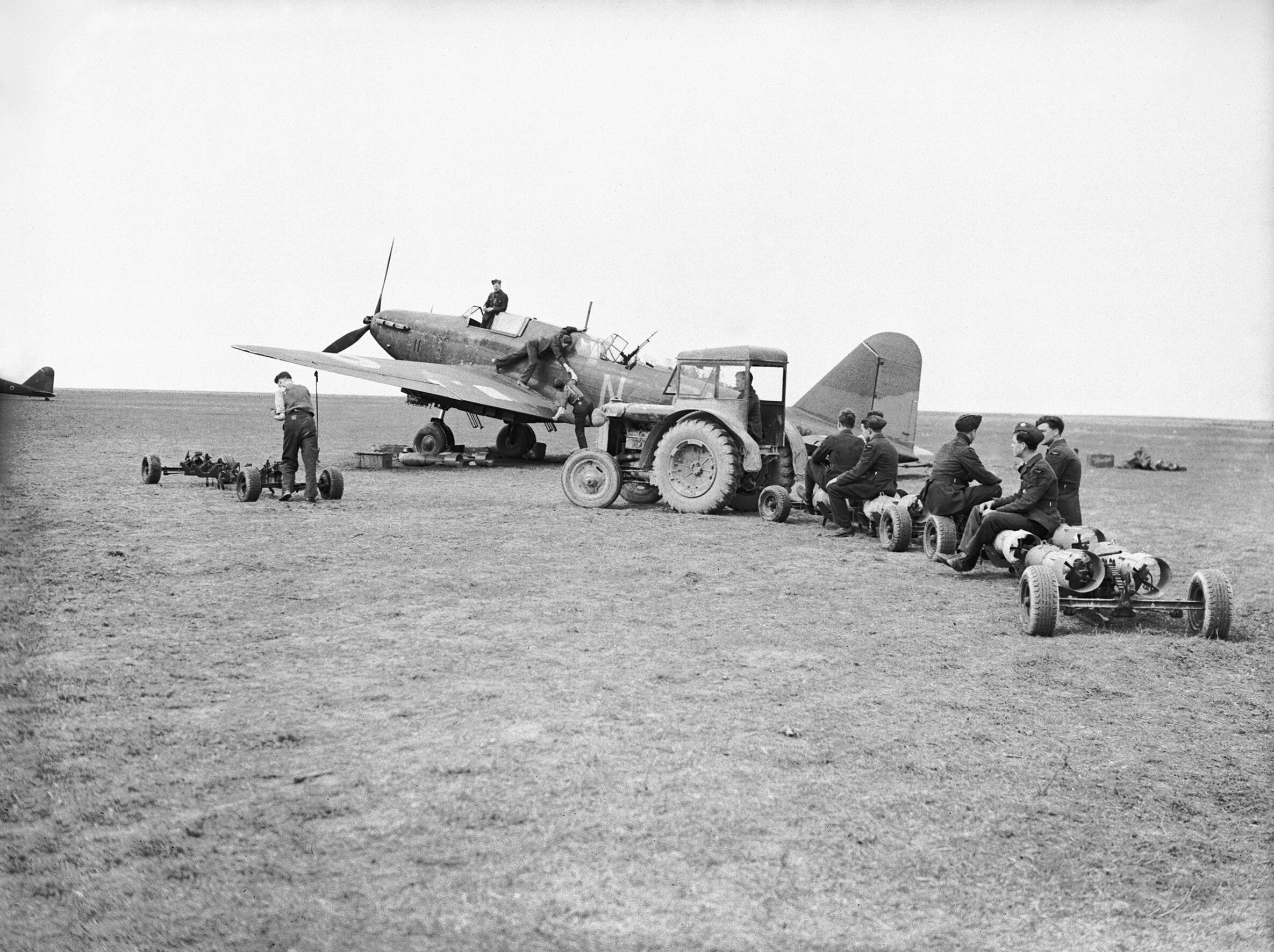 Royal Air Force- France, 1939-1940. Bomb-trolleys loaded with 250-lb GP bombs and attendant armourers being towed out by tractor to Fairey Battles at Betheniville prior to a sortie to the bombing practice range at Moronvilliers. Behind them, Battle, K9408 'PM-N', of No. 103 Squadron RAF is prepared for a flight.